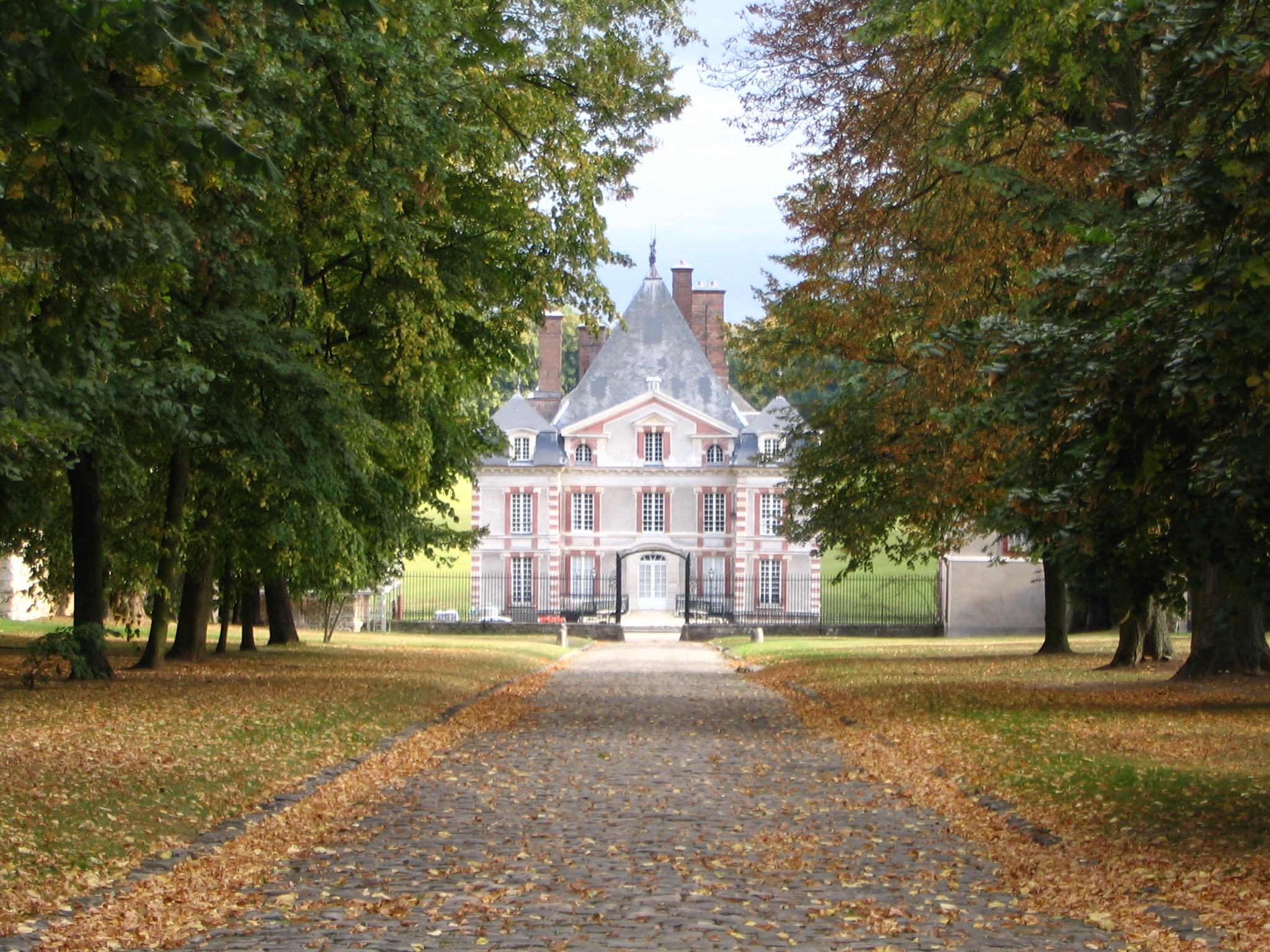 The castle of Ormesson-sur-Marne, Val-de-Marne, France.